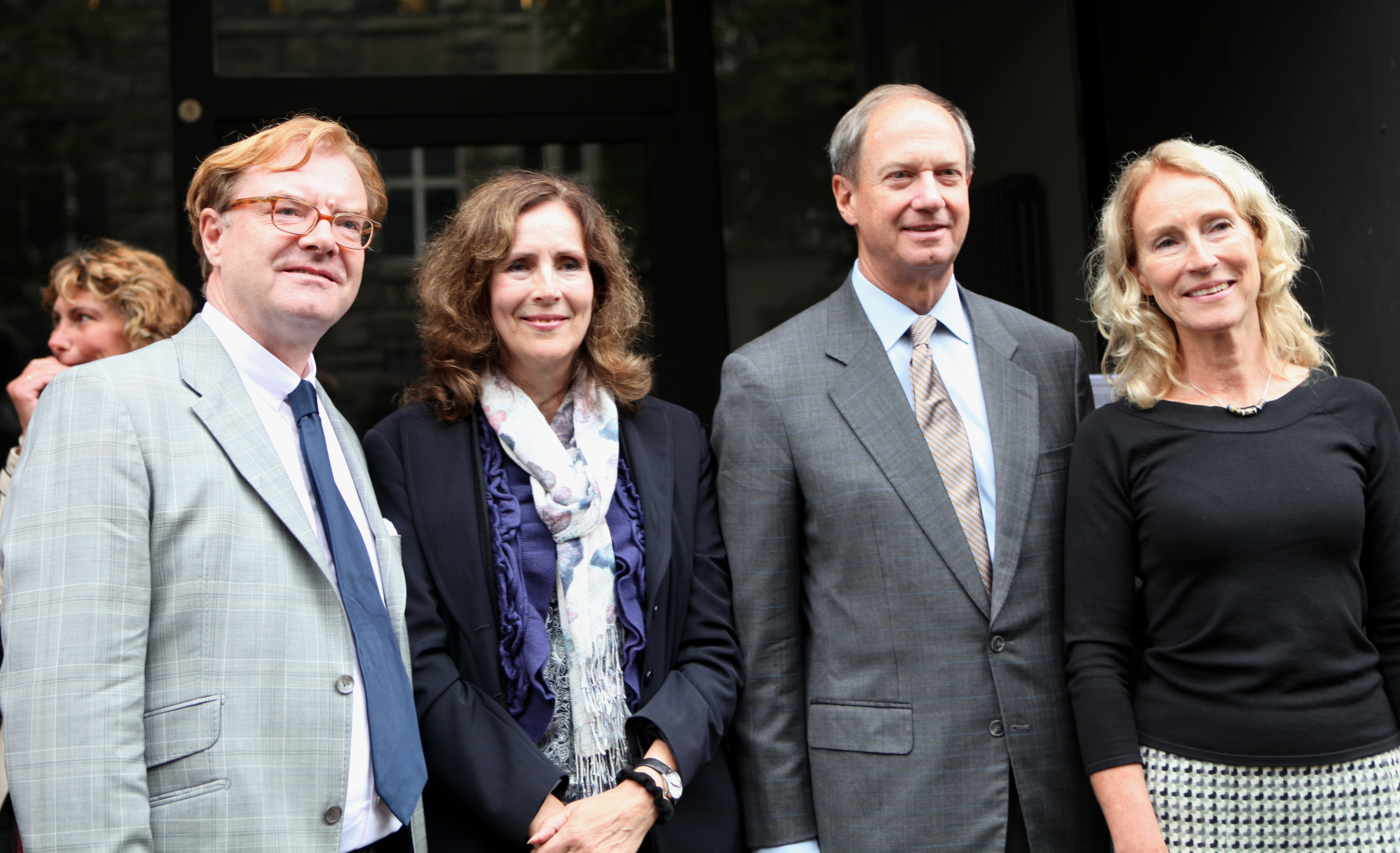 Installation ceremony of two Stolpersteine commemorating the "Red Orchestra" resistance fighters Mildred Fish-Harnack and her husband Arvid Harnack in Berlin, Genthiner Str. 14, on September 20, 2013On the picture: Harnack's grandchildren Nicole Hutchings (2nd left) and Jilly Allenby-Ryan (right) with U.S. Ambassador John B. Emerson (2nd right) and Berlin's Secretary of Culture André Schmitz (left)